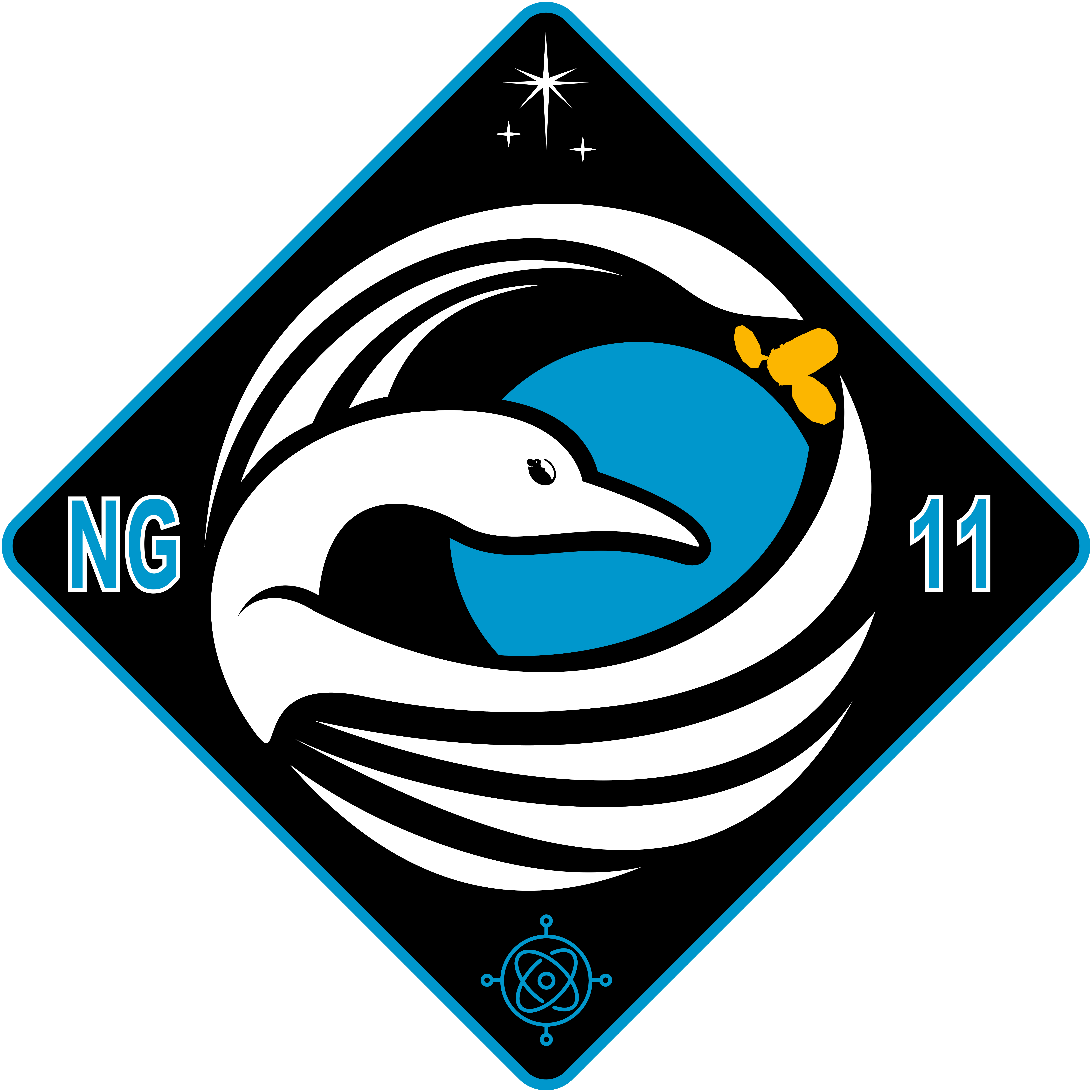 NASA insignia for Northrop Grumman's NG-11 Cygnus resupply flight